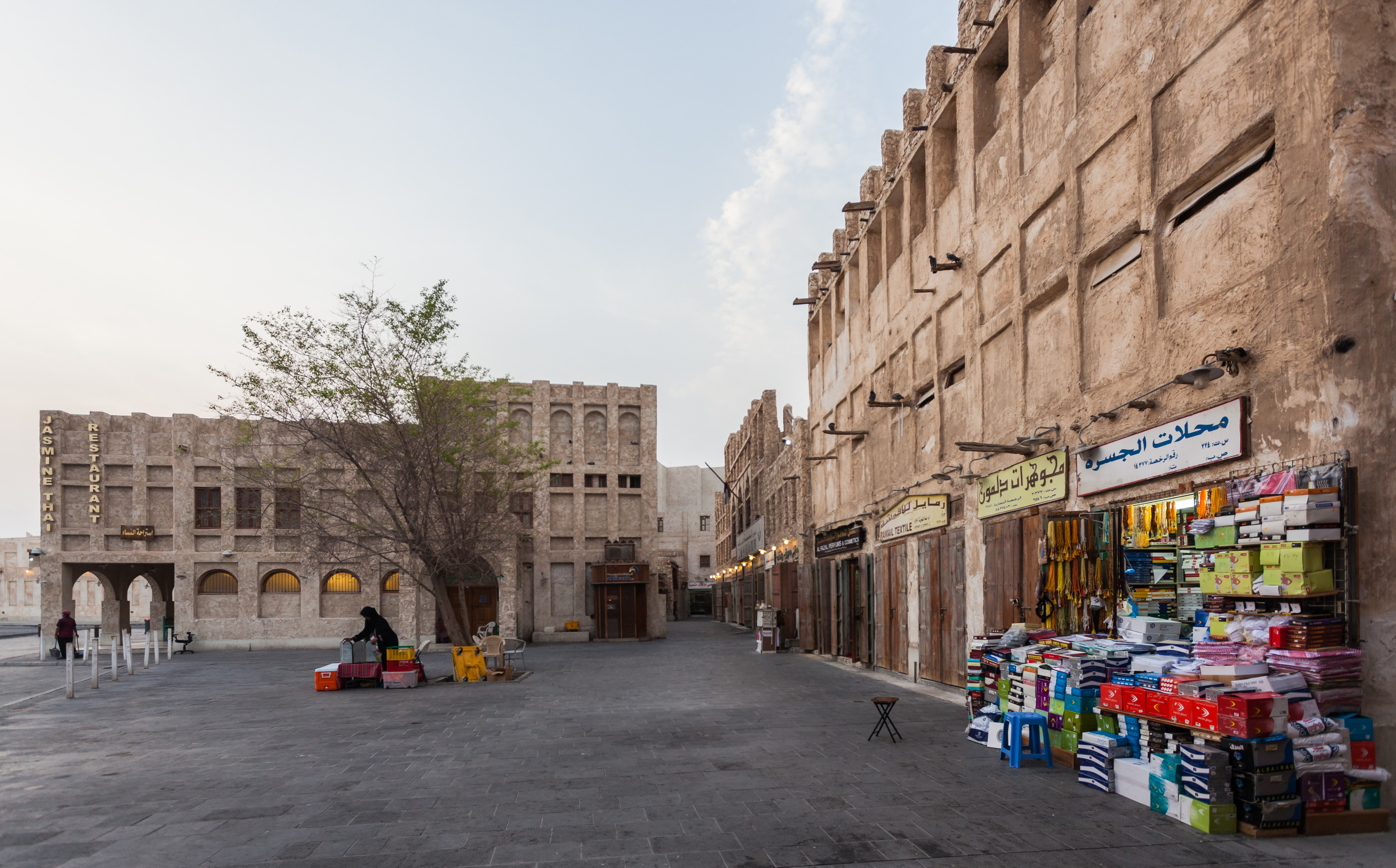 Souq Waqif, Doha, Qatar